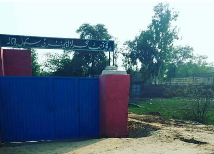 I also Uploaded this Photo on Botala Facebook Page & on website